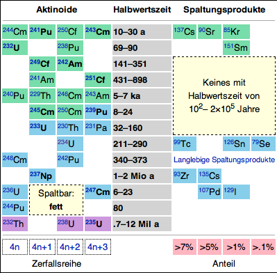 actinides and their fissionproducts, with half-life, in GER